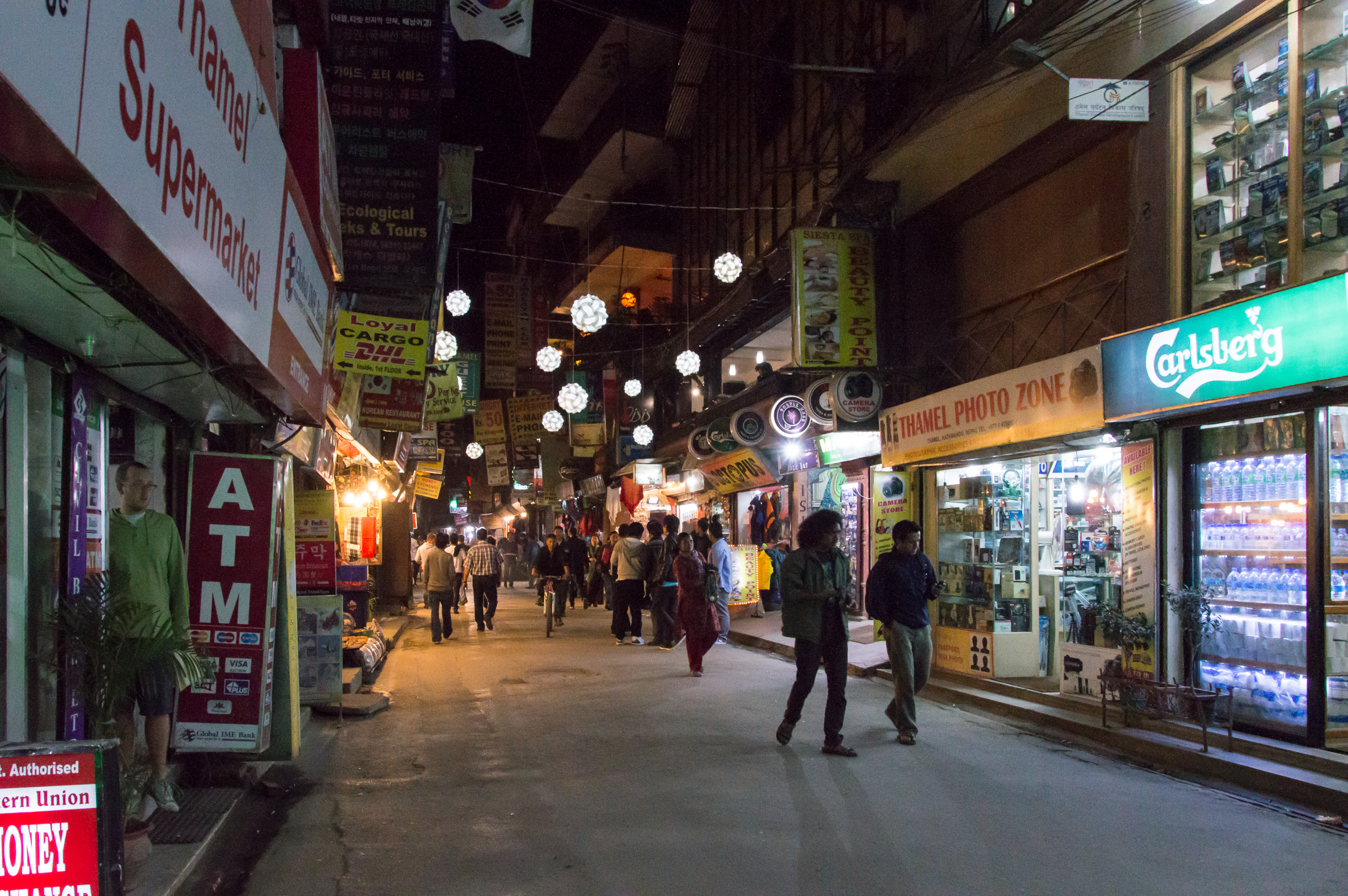 Thamel at night / Kathmandu, Nepal